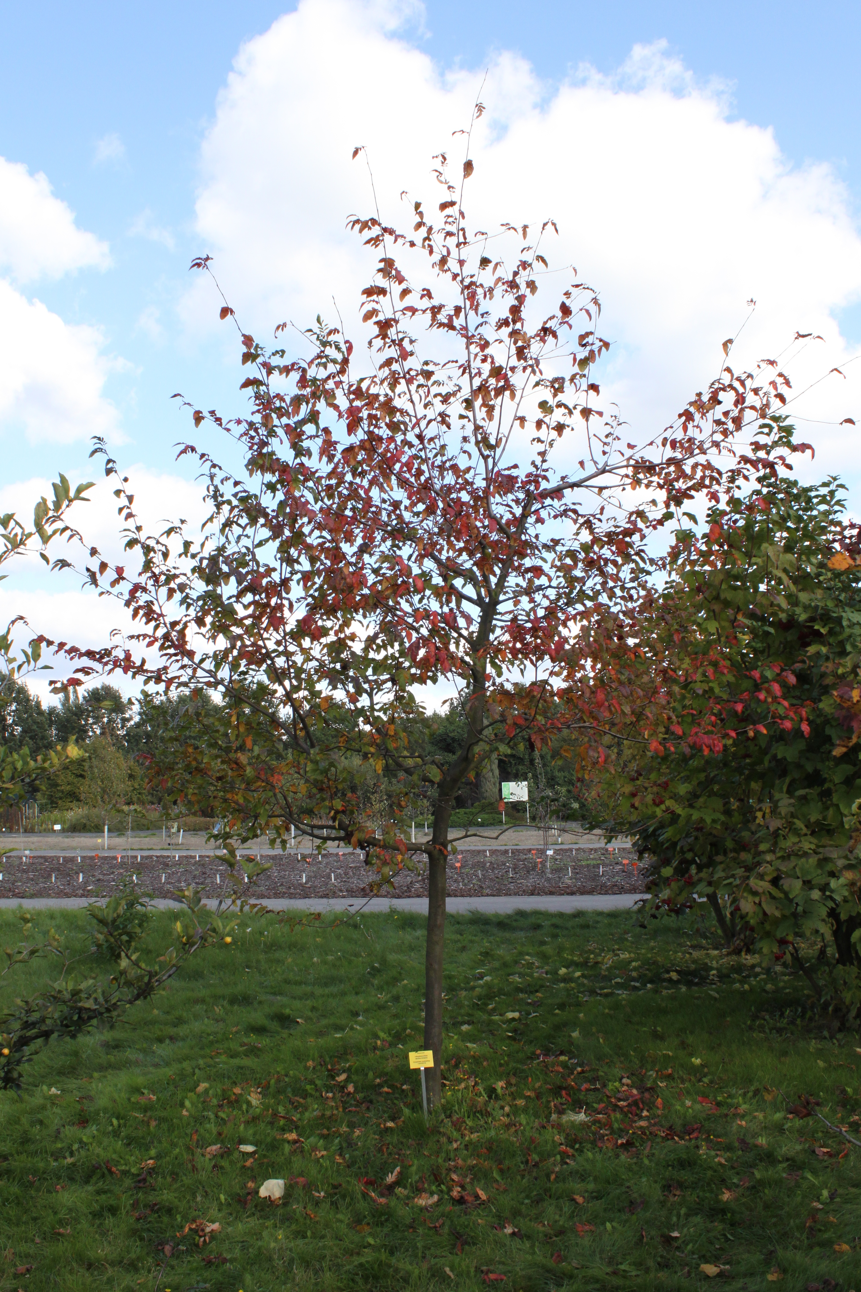 ×Amelasorbus raciborskiana in PAN Botanical Garden in Warsaw, Poland